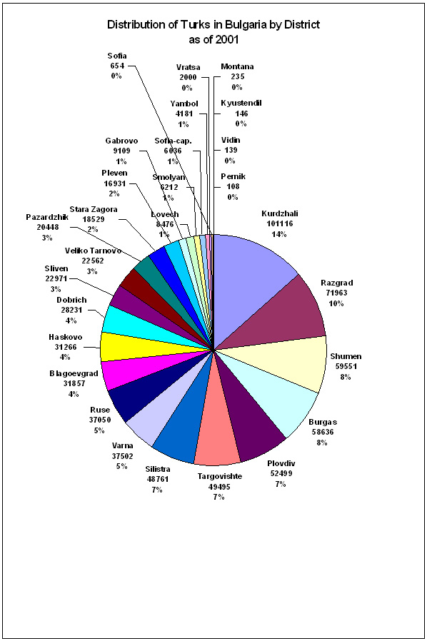 Distribution of Bulgaria's Turkic population by district according to the 2001 census data.